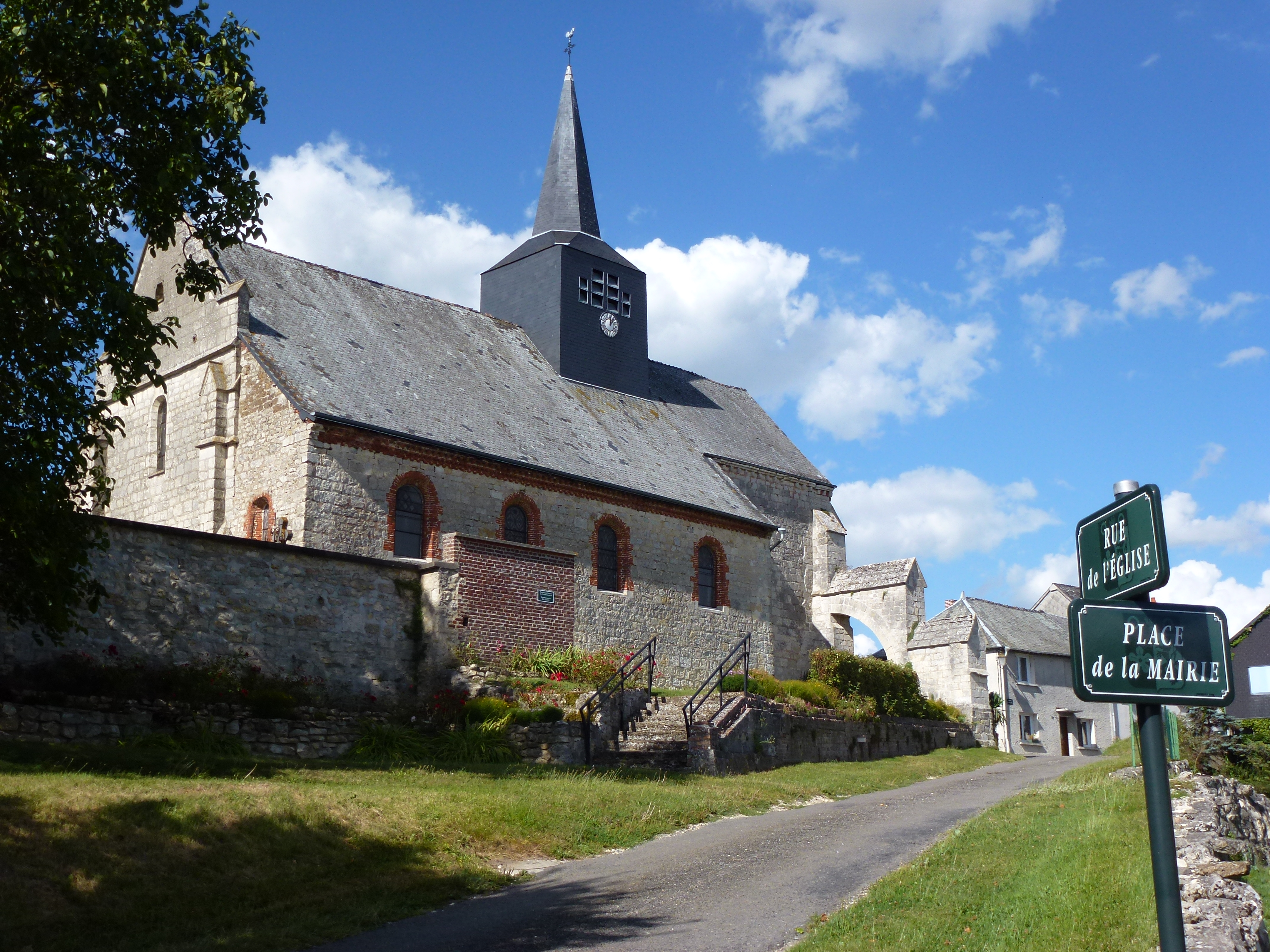 Mesmont (Ardennes) église